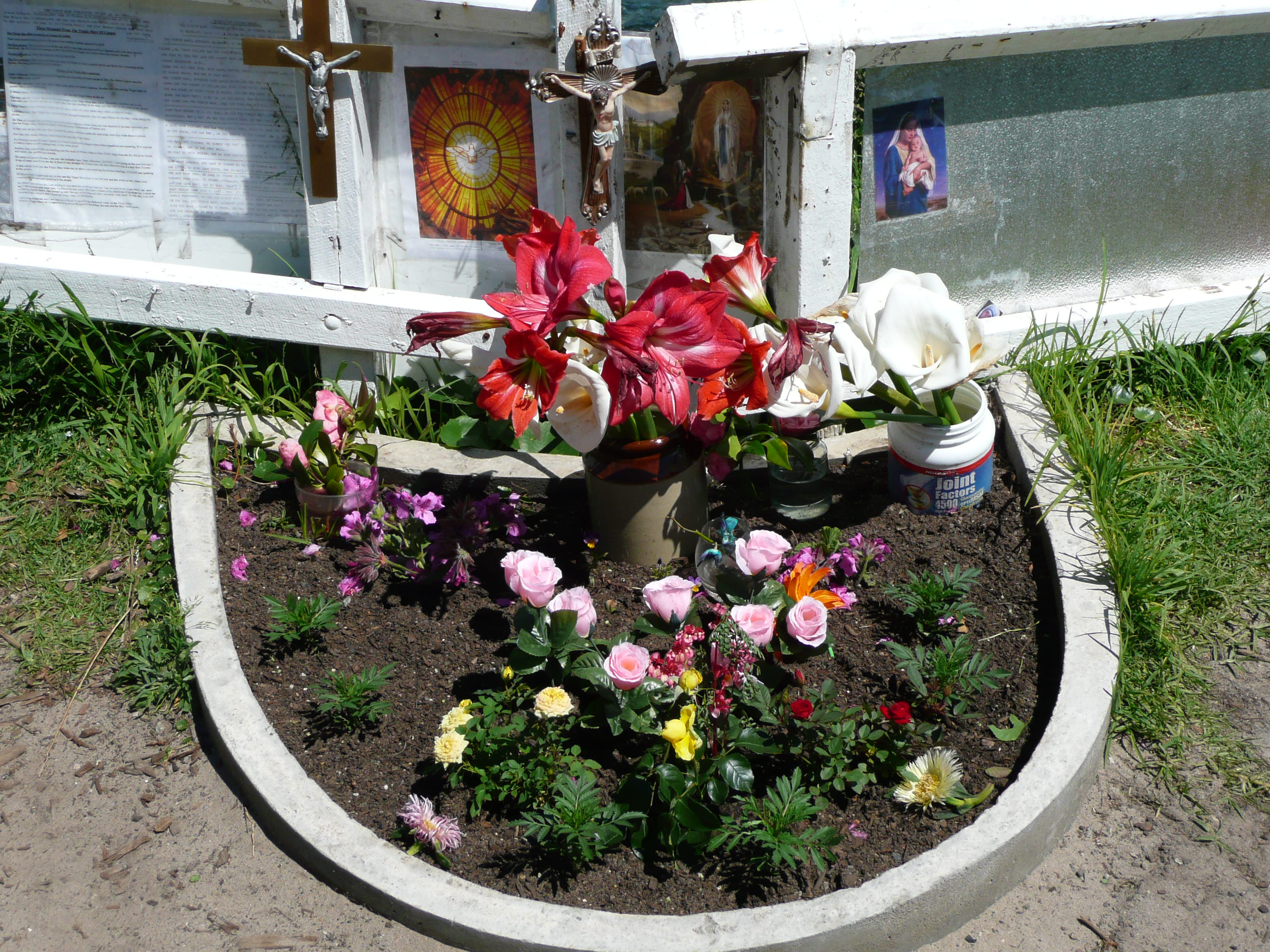 Shrine at Coogee Beach, at spot where people thought they saw a vision of the Virgin Mary in 2003 (actually an illusion created by the shape of the fence and the shadow it cast, which is why it was never seen on cloudy days), Coogee, Sydney